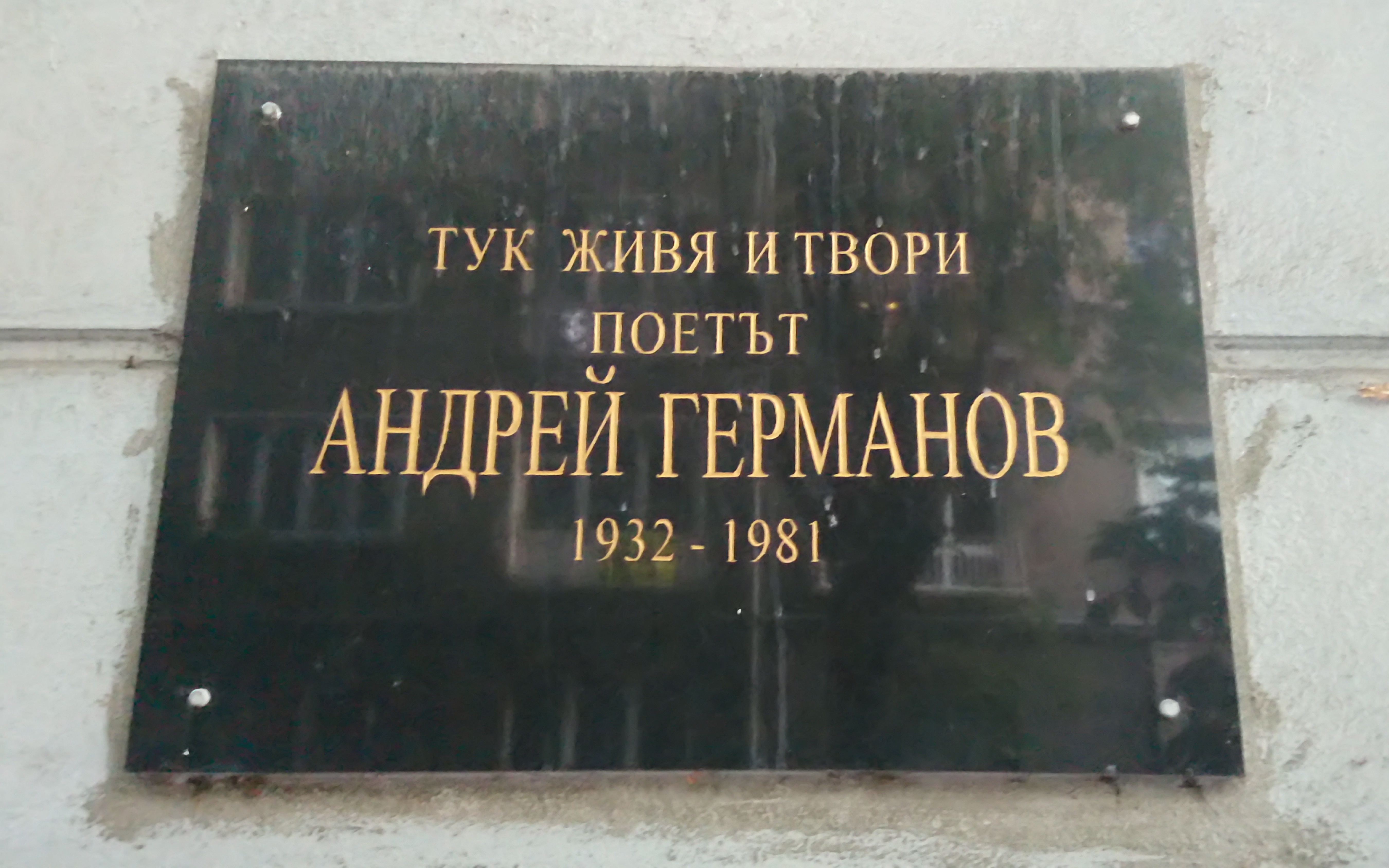 Memorial plaque of Andrey Germanov, 24 Yuri Venelin, Sofia